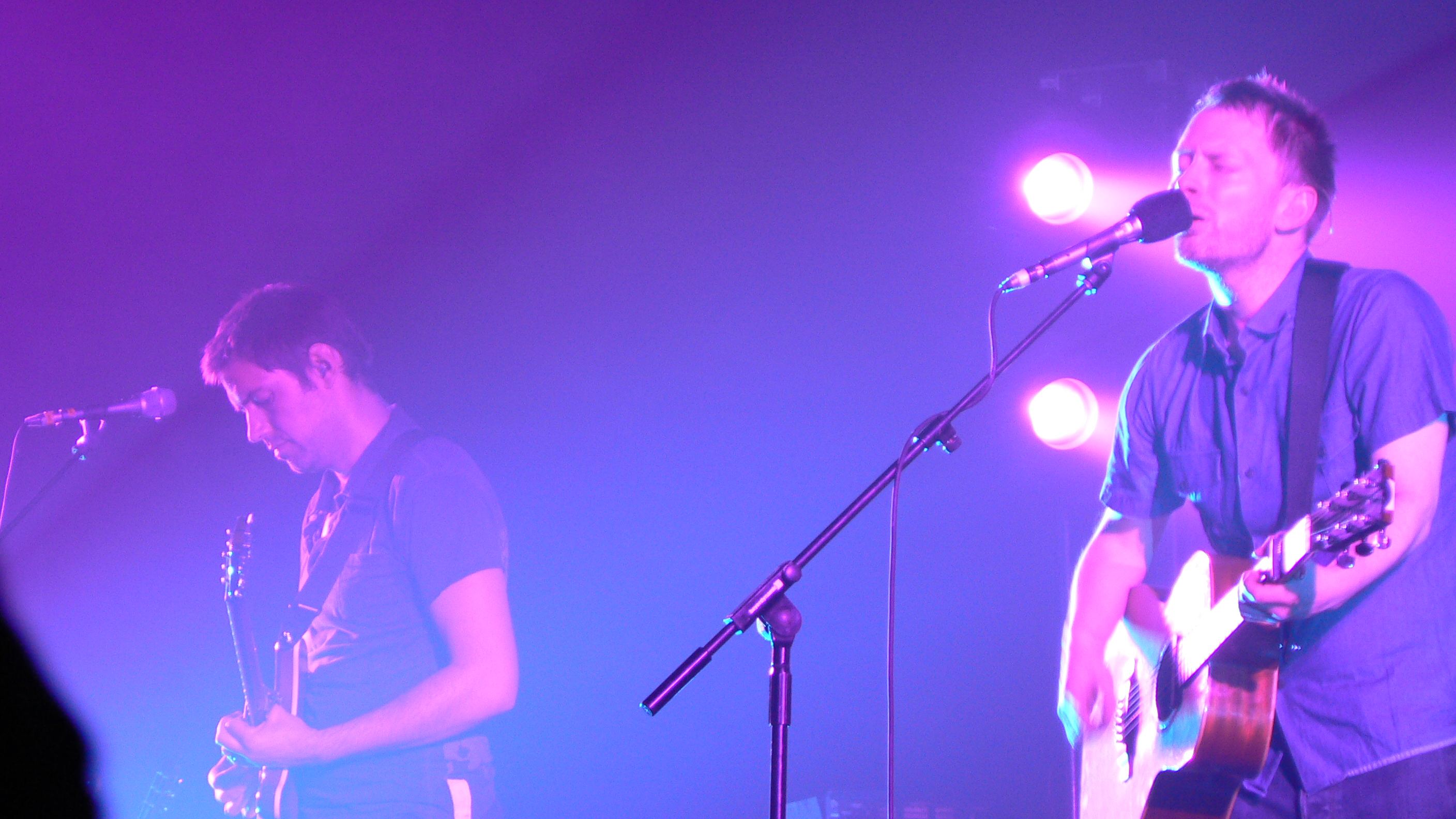 radiohead at heineken music hall, may 9. Ed O'Brien (left), Thom Yorke (right)radiohead in amsterdam